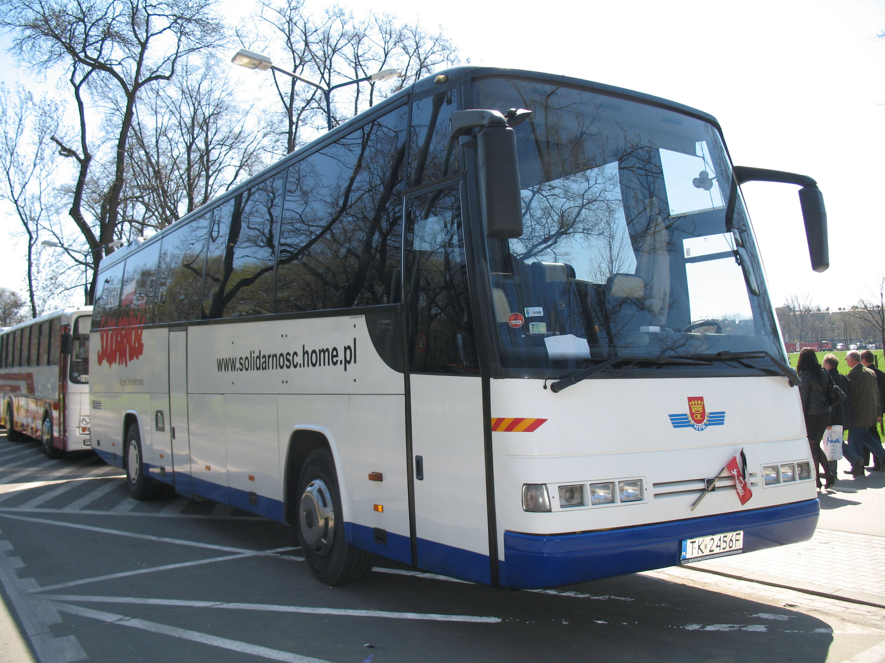 Volvo B12-600 Drögmöller coach in Kraków, Poland. Built 1998, MPK Kielce operator.